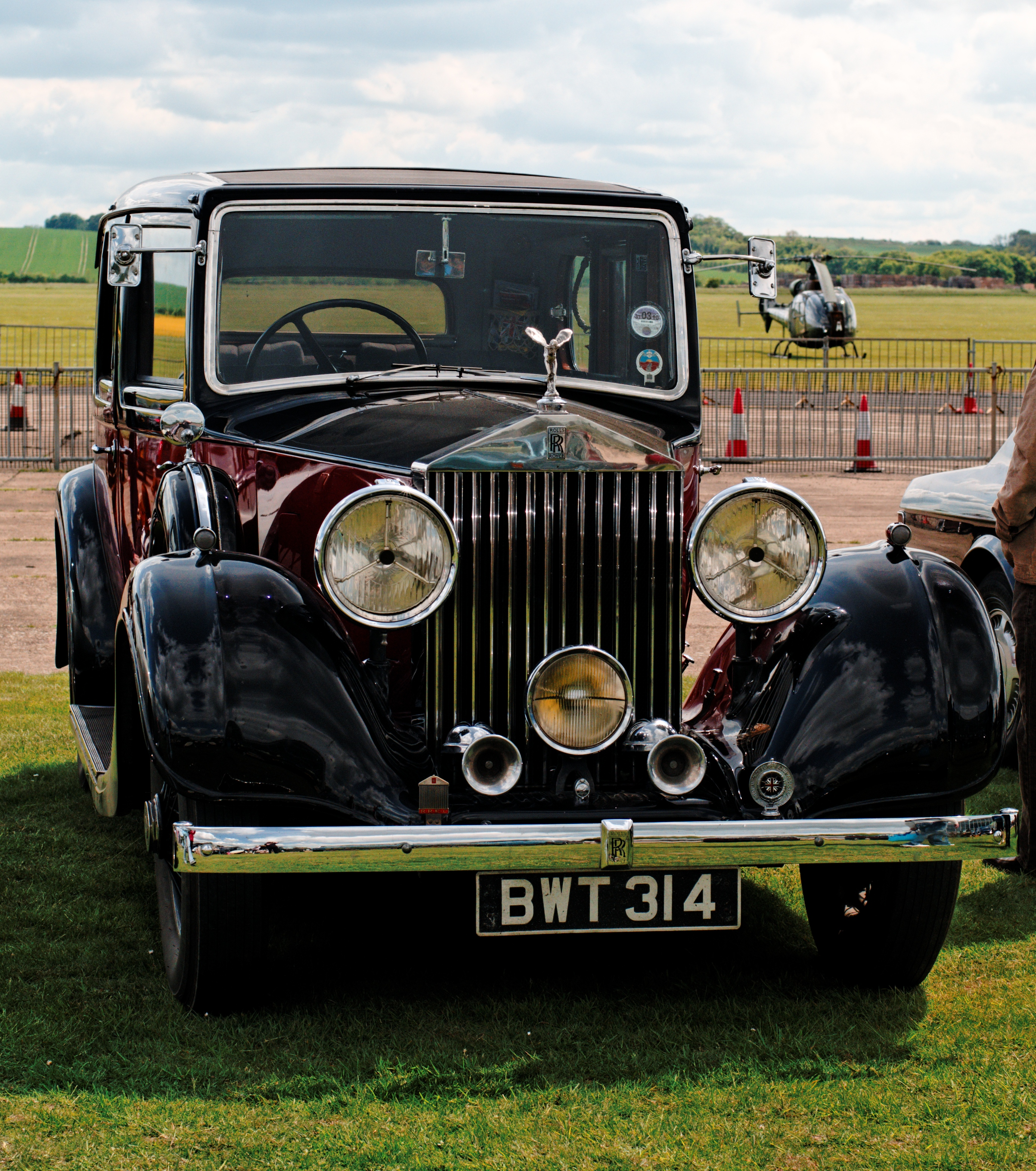 Rolls-Royce 25/30 Duxford Spring Car Show This photo was taken on May 3, 2009 in Thriplow, England, GB, using a Nikon D300.